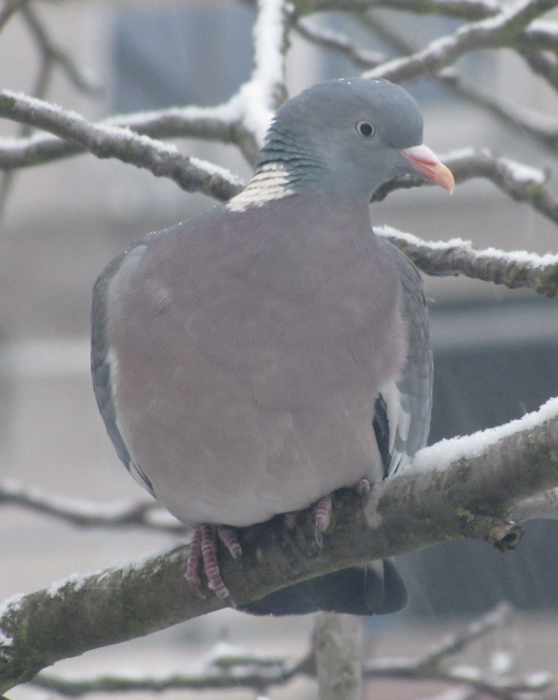 Common Wood Pigeon (Columba palumbus)